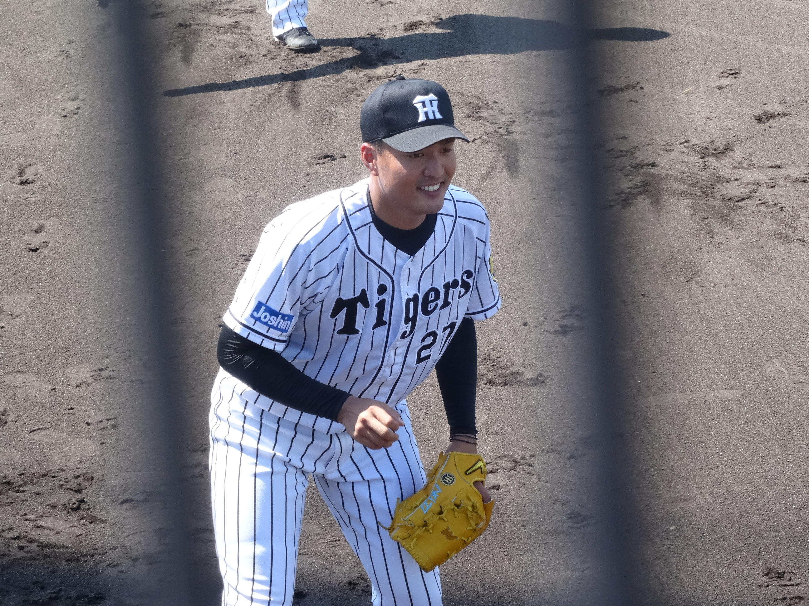 Takumi Akiyama, pitcher of the Hanshin Tigers, at Hanshin Naruohama Baseball Ground